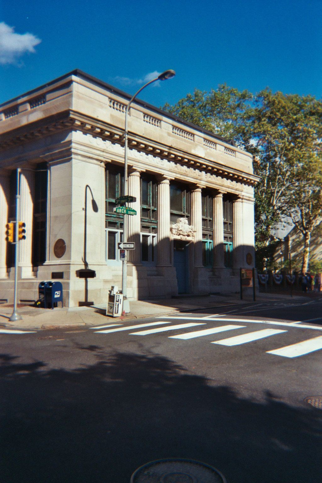 Third and Arch streets in Philadelphia, Pennsylvania featuring the Church for Merchant Seamen's Center